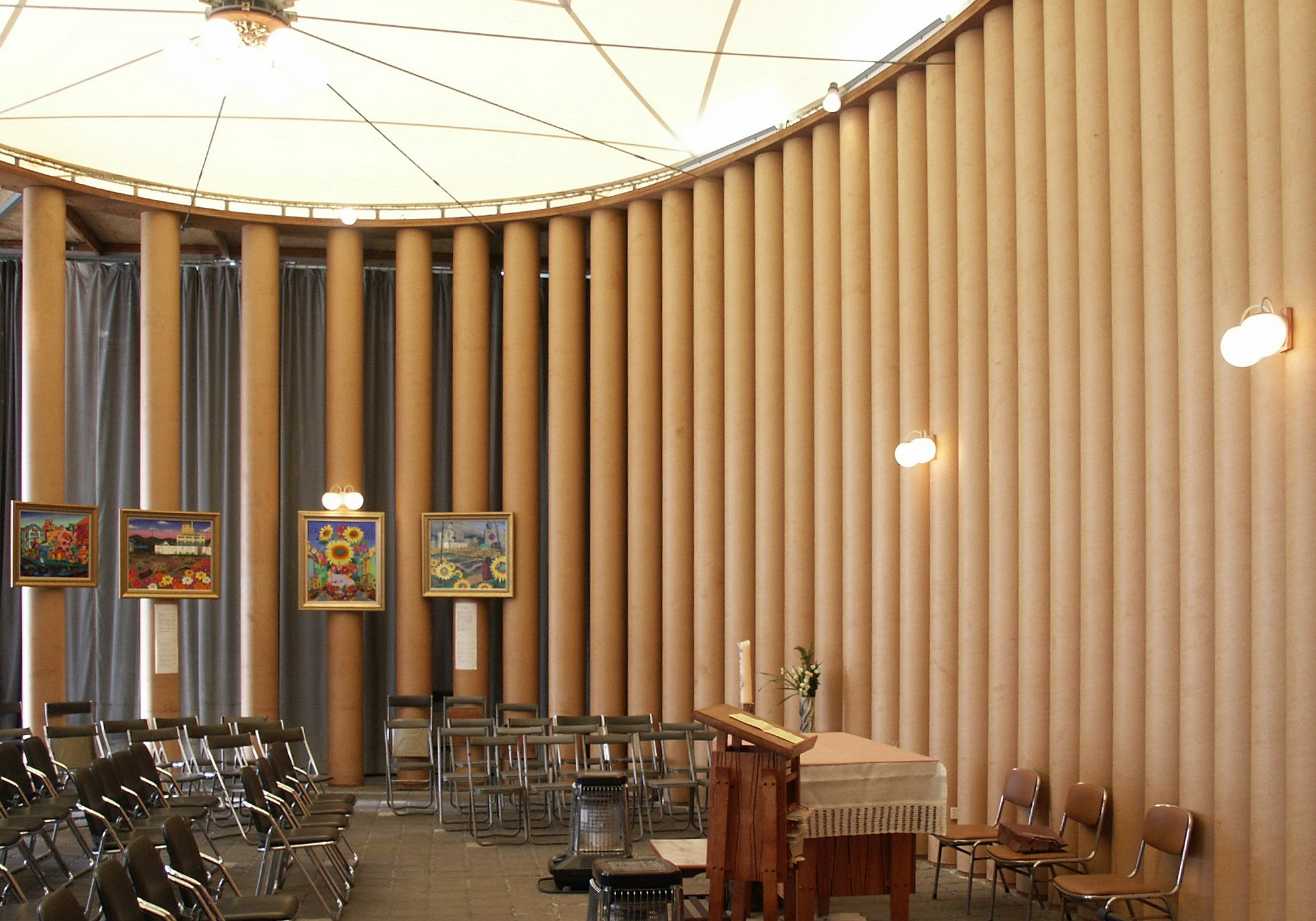 Takatori Catholic Church, Hyogo, Japan. Designed by Shigeru Ban.